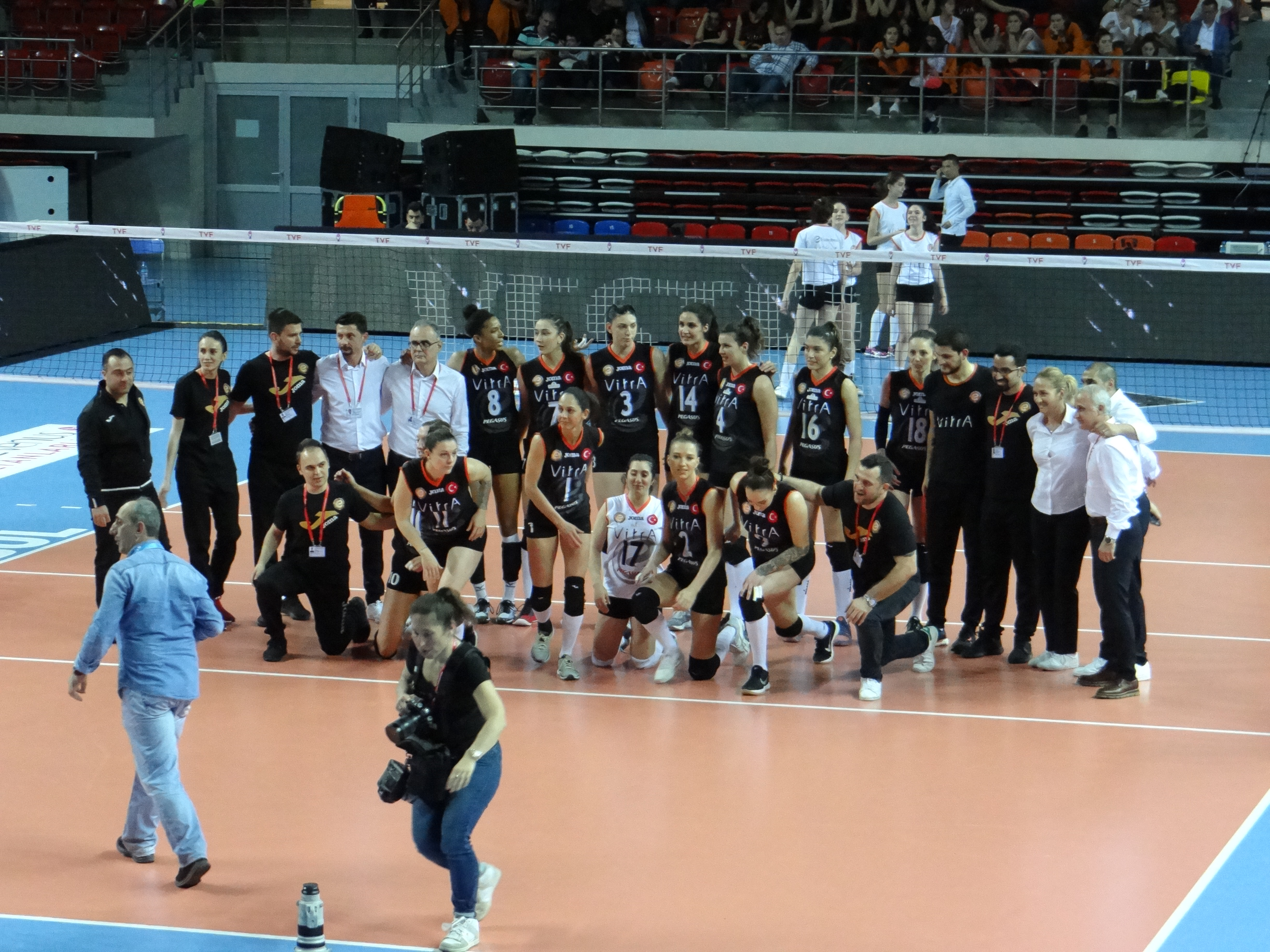 Eczacıbaşı VitrA TWVL 20180426